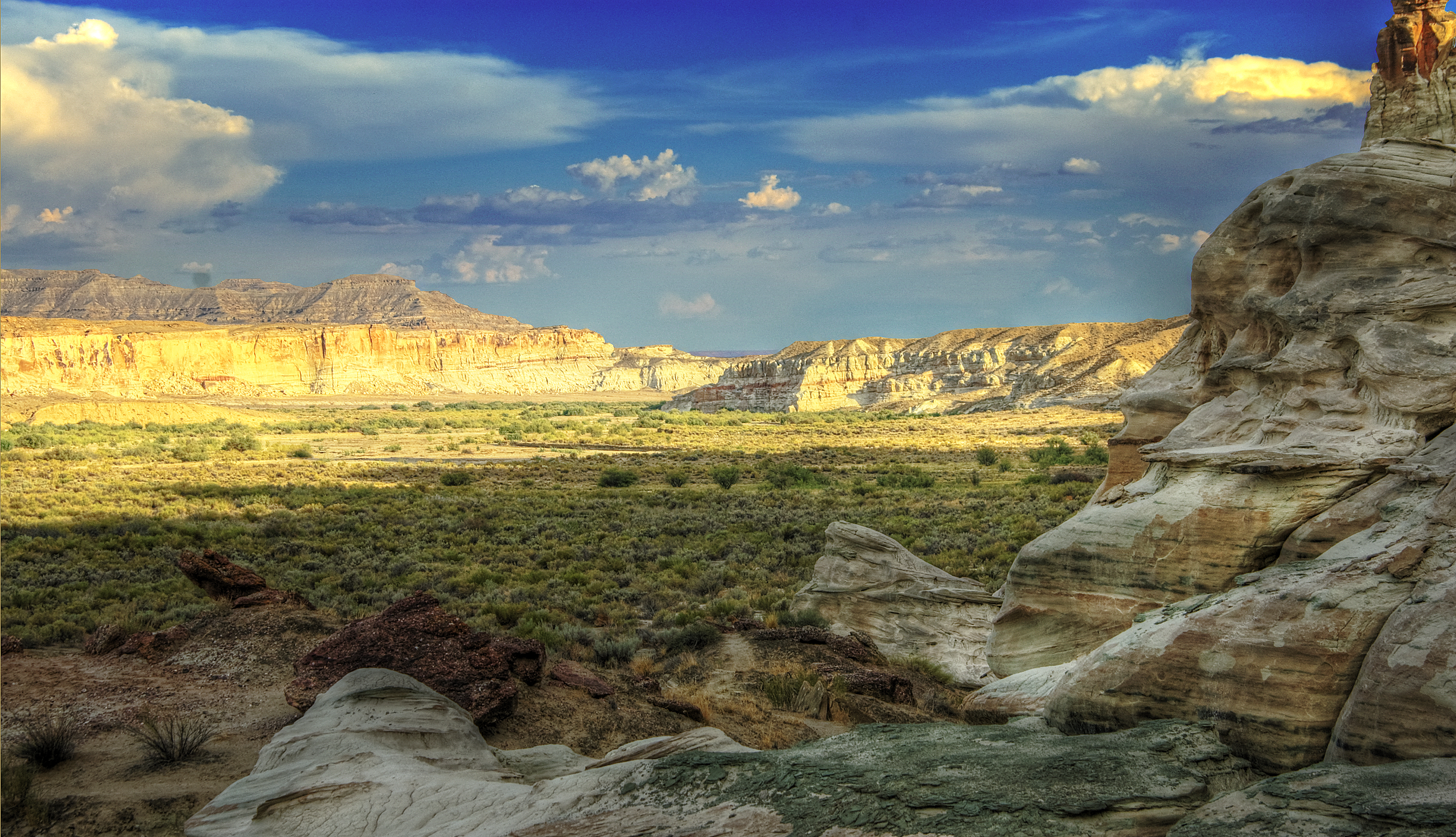 The Valley of Wahweap Creek, Page, Arizona